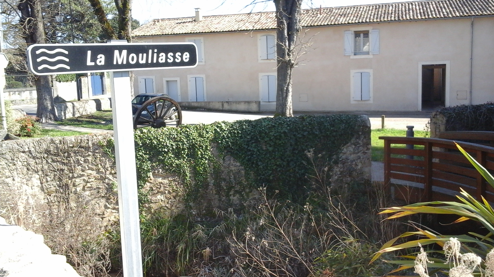 La Mouliasse at Landiras. Also known as l'Arec further downstream.